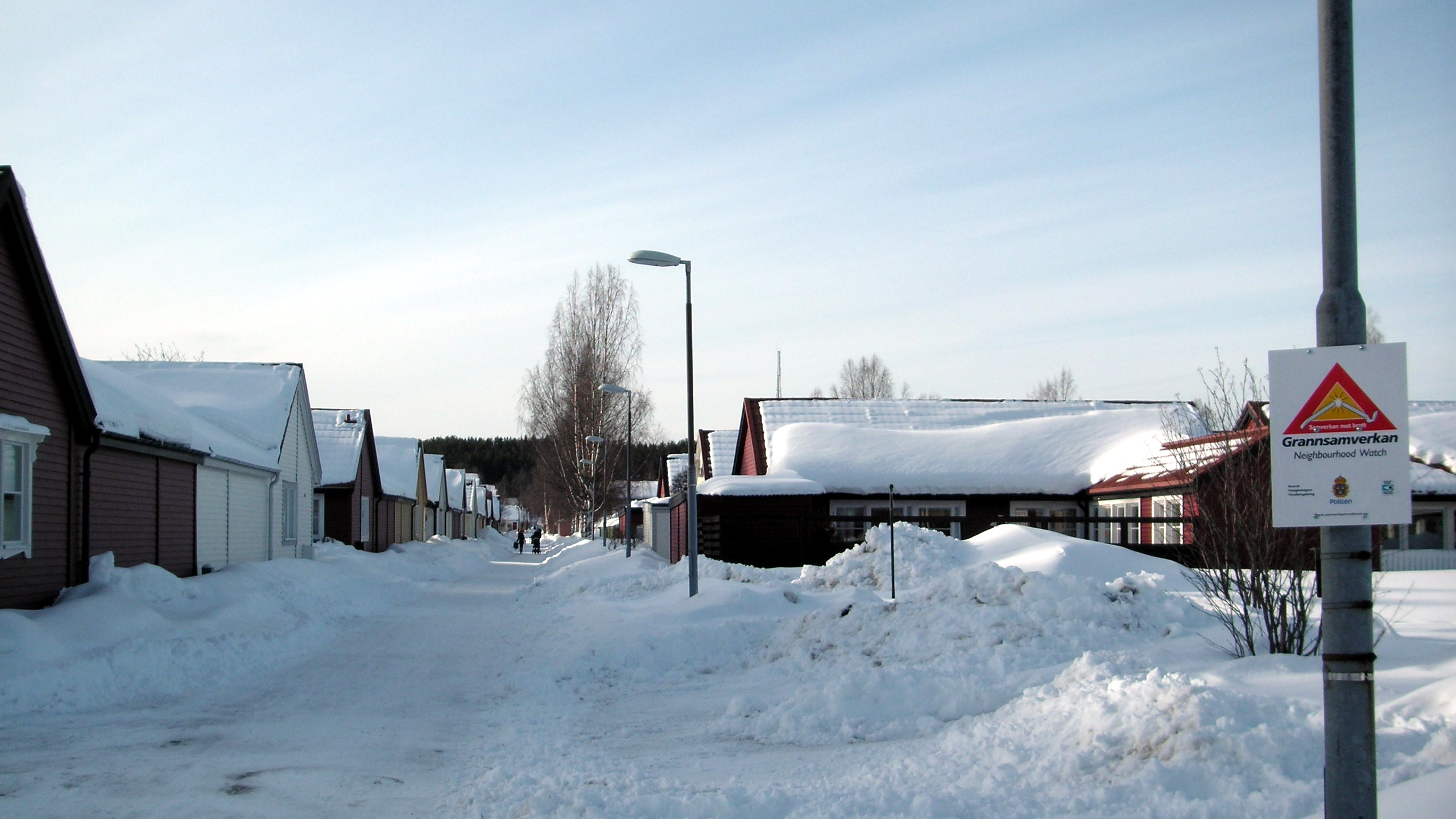 Neighborhood "Rödäng" in Umeå, Sweden.